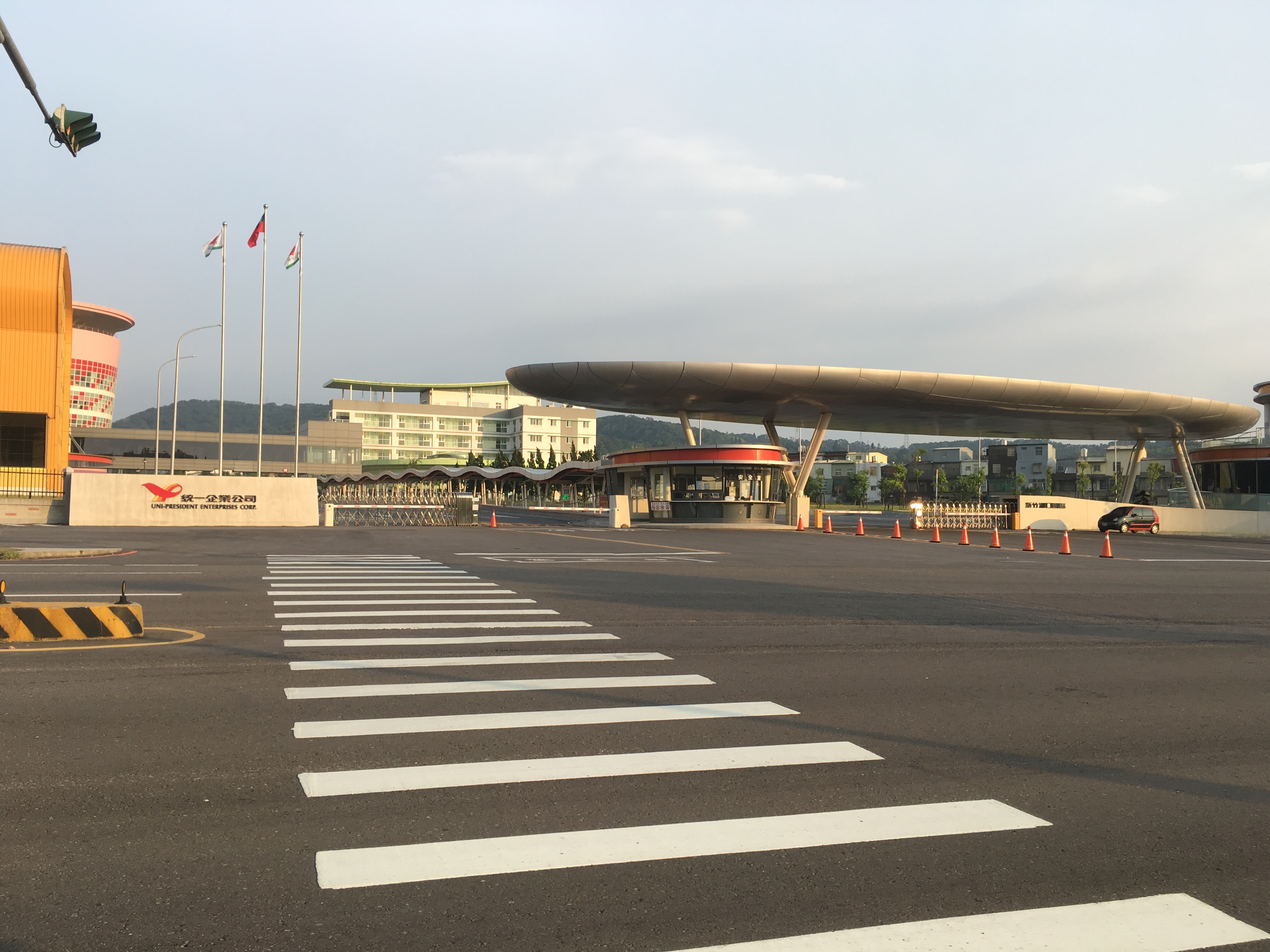 Hsinchu Hukou Park, Uni-President Enterprises Corporation.